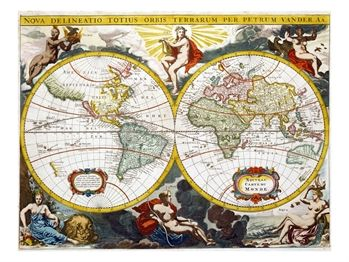 World map